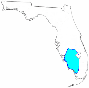 Prepared by User:Albury (Donald Albury) by modifying Image:FLMap-doton-DelrayBeach.PNG based on a map found in Mahon, Johm K. 1967. History of the Second Seminole War. Gainesville, Florida: University of Florida Press.